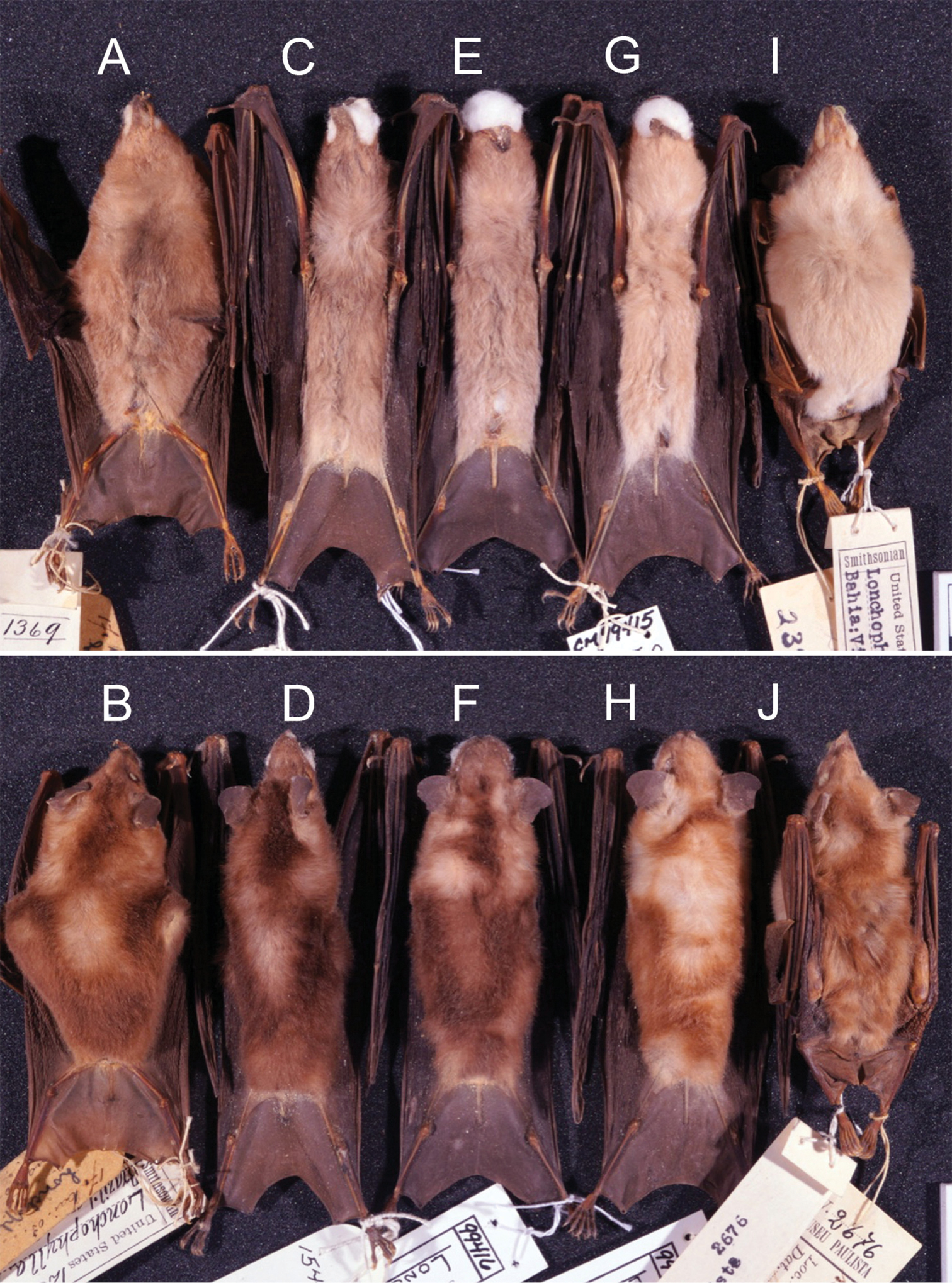 Ventral (above) and dorsal (below) pelage colours of Lonchophylla mordax A, B (USNM 123392, paratype), and L. inexpectata C, D (CM 99432) E, F (CM 99416) G, H (CM 99415) I, J (USNM 238008, holotype).